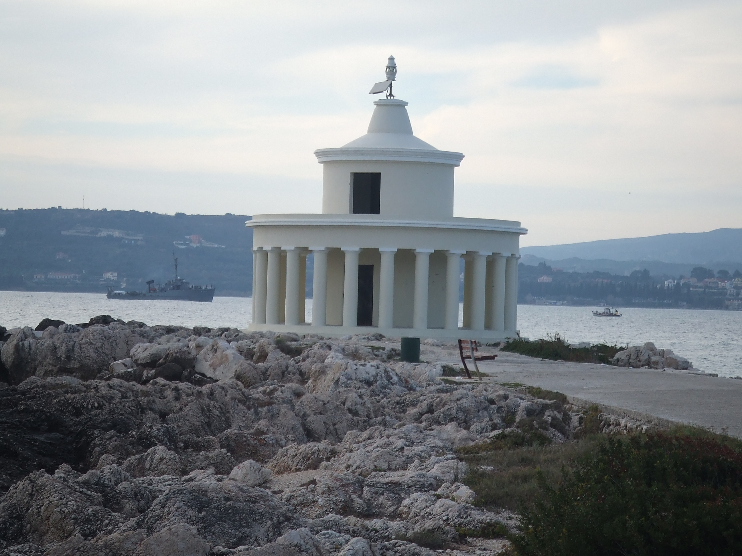 Lighthouse in Argostoli, Kefalonia